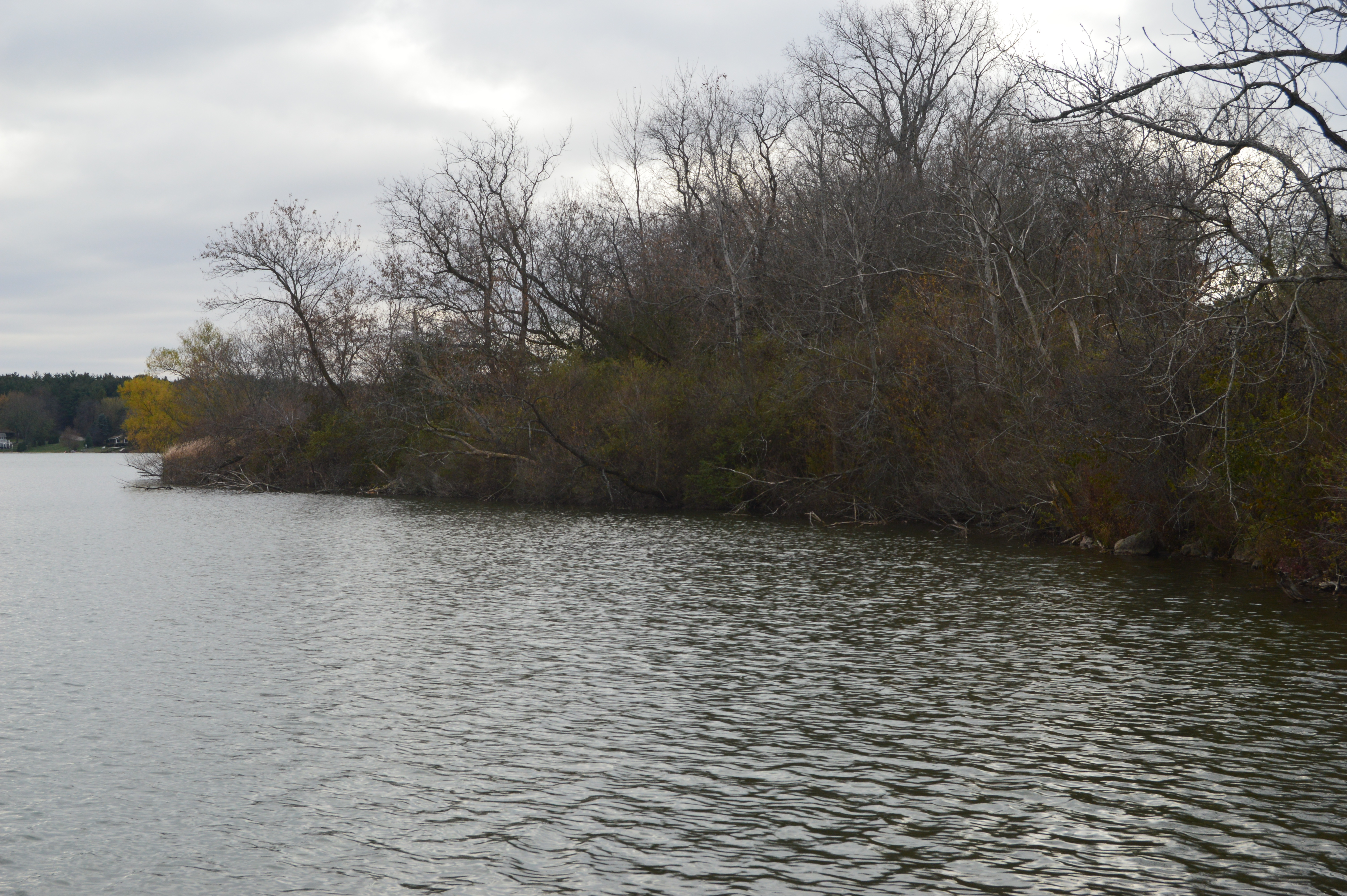 A view of Rice Lake, adjoining Whitewater Lake, in the fall.